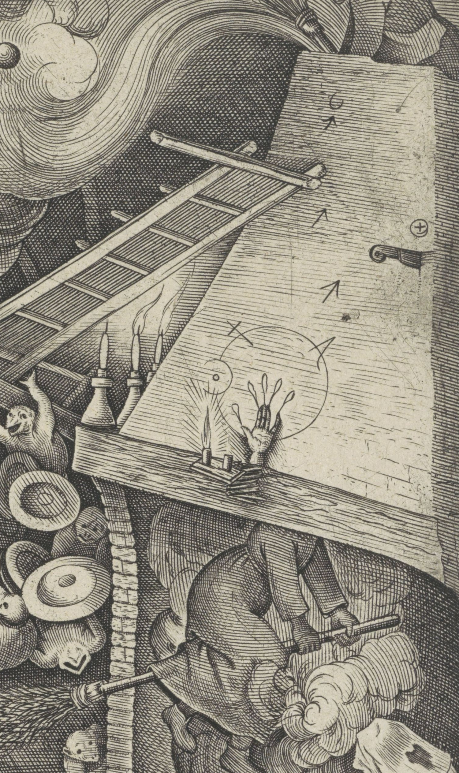 Main de gloire, detail of this image: Jacob meets magician Hermogenes.